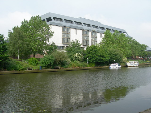 Maidstone Combined Court Centre (housing both Crown Court and County Court) viewed from the river path